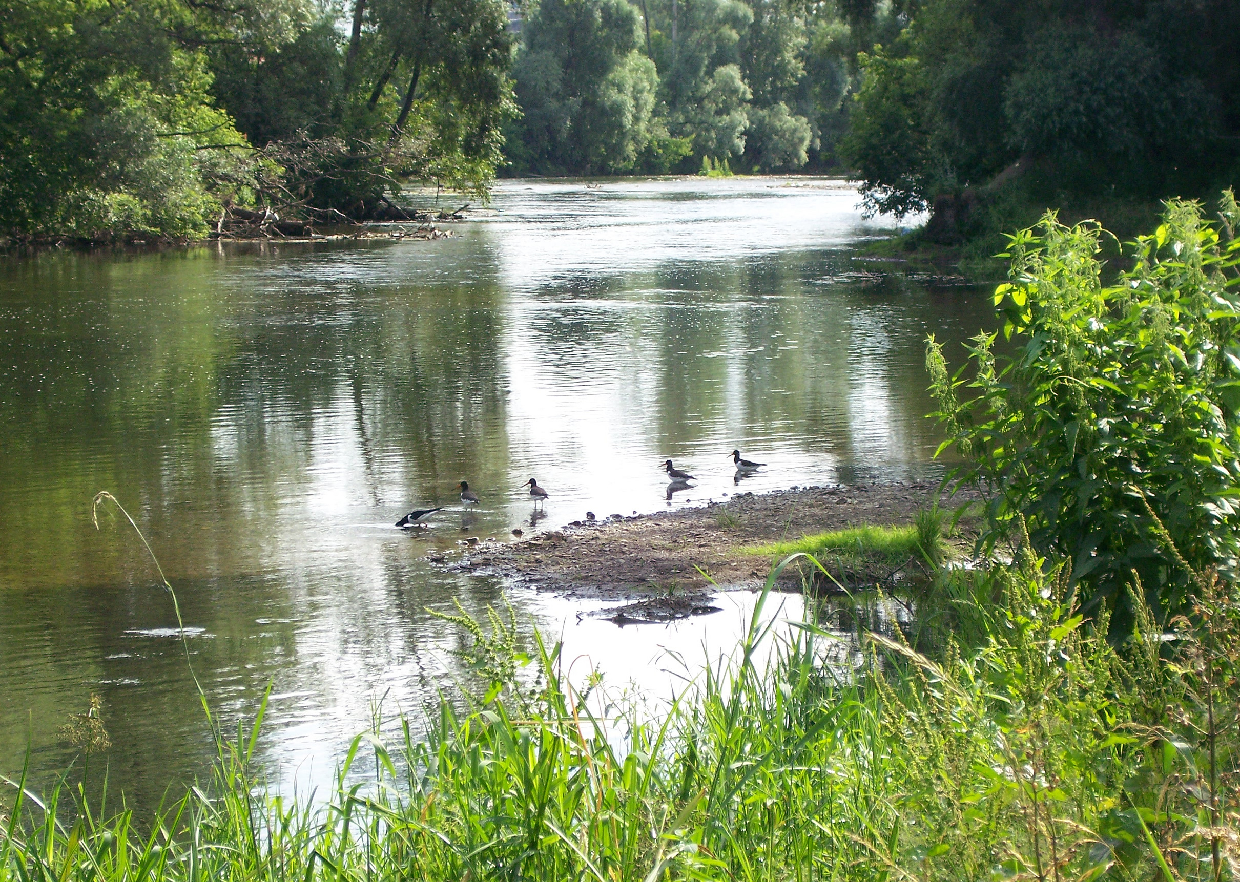 Oystercatcher on the Sim River in the town Asha.